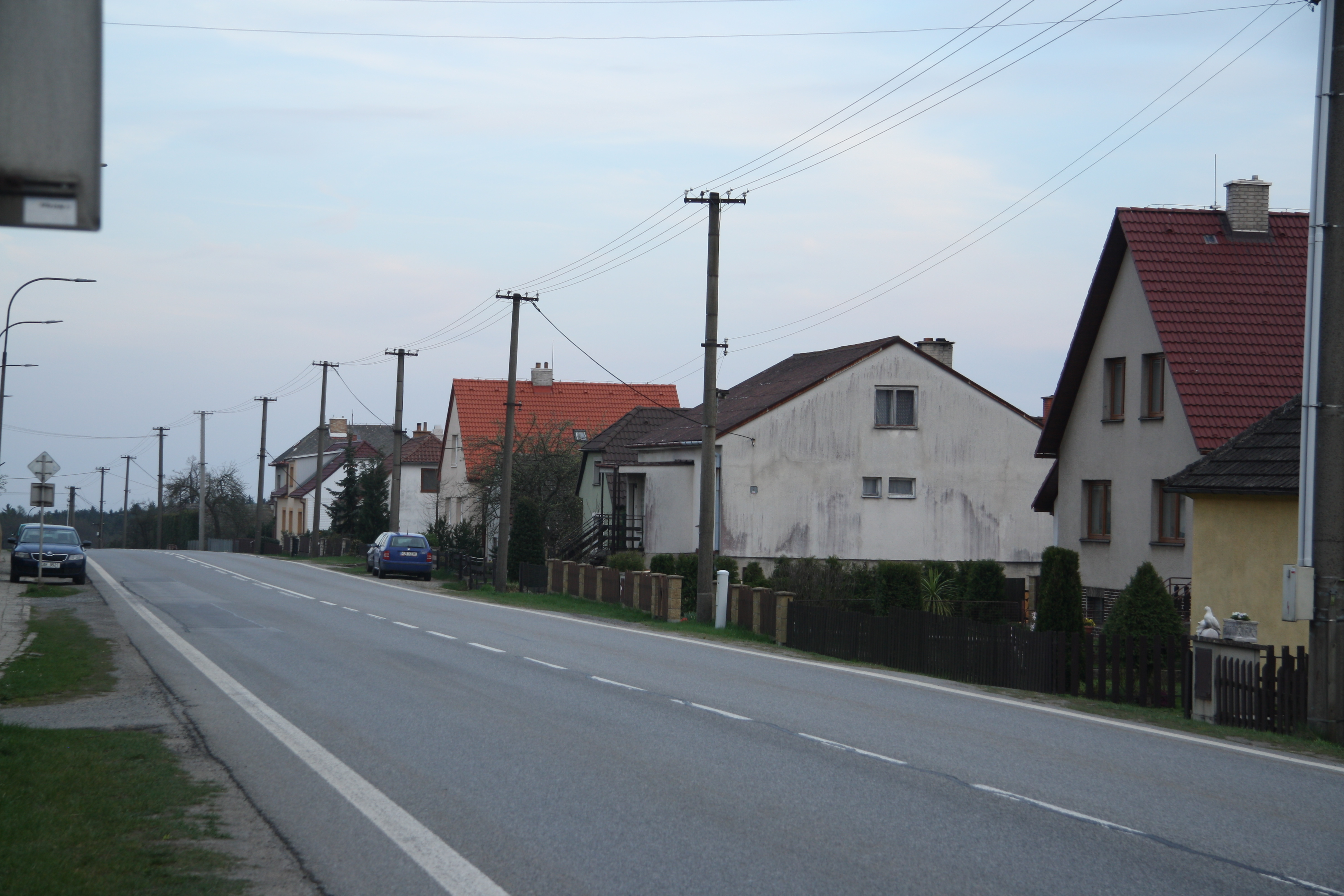 Center of Horky, Želetava, Třebíč Distsrict.